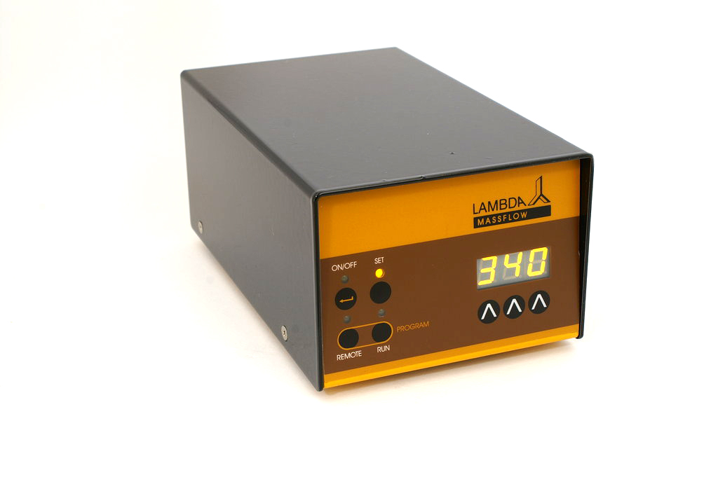 MASSFLOW - precise gas flow measurement and controller, LAMBDA